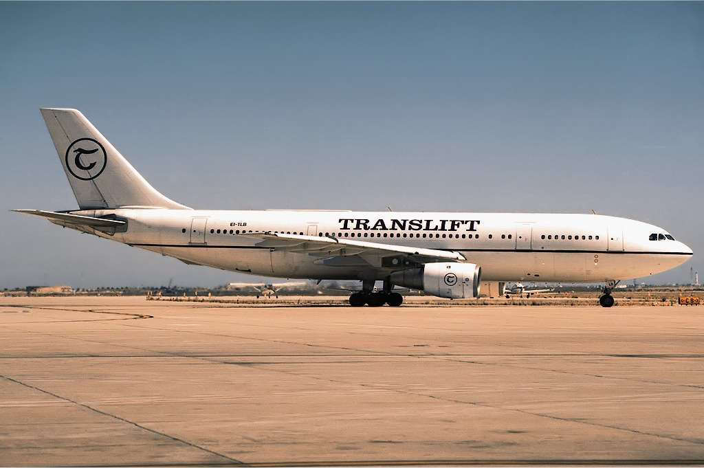 Translift Airways Airbus A300